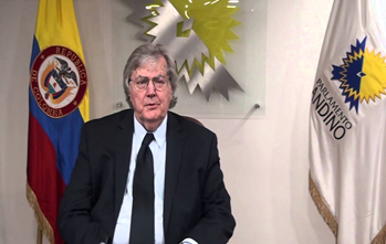 Butler in front of US Parliament flag